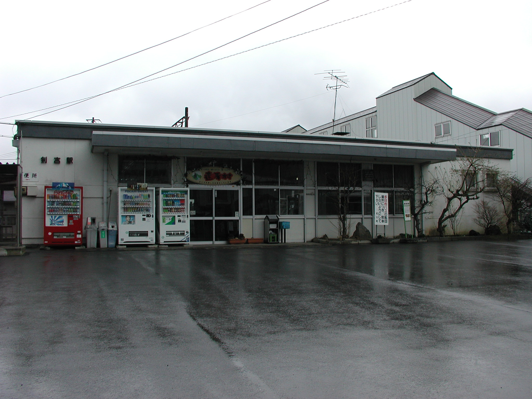 Kenyoshi Station